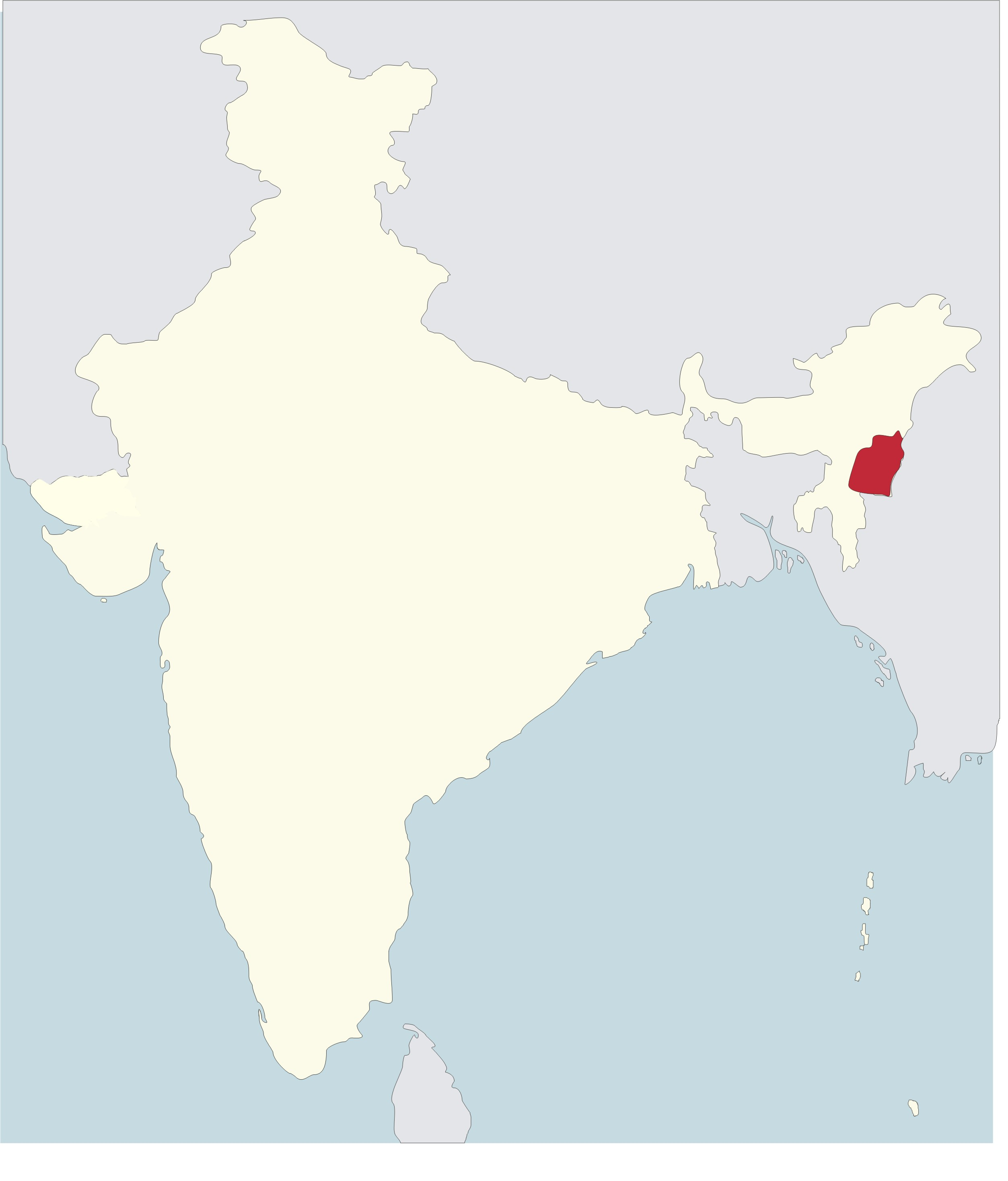 Map of the Roman Catholic Diocese of Imphal in India